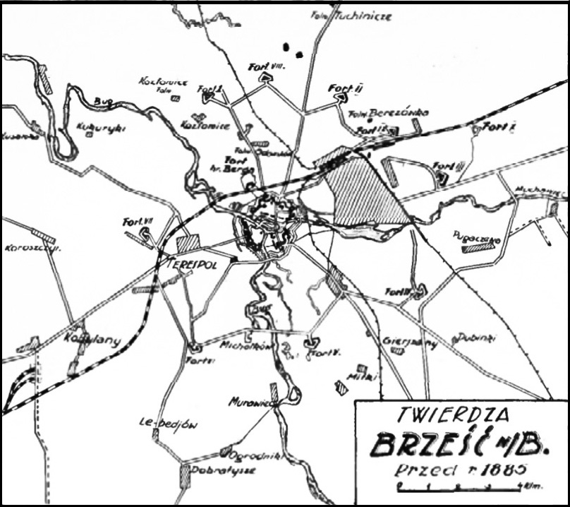 Brest Fortress on the Bug River and its forts before 1885